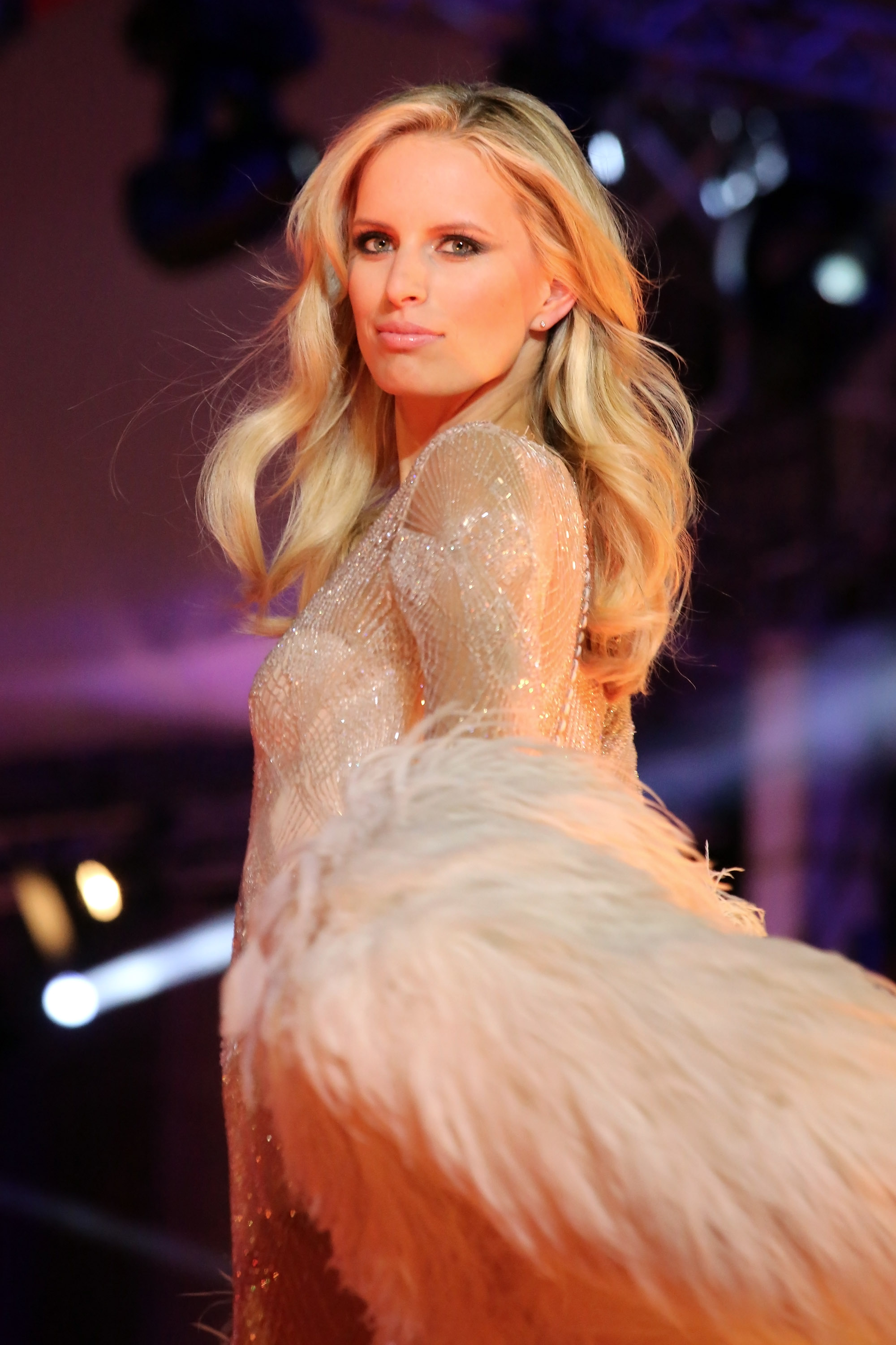 Karolína Kurková, fashion show by Roberto Cavalli, opening of Life Ball 2013 at the city hall of Vienna, Vienna, Austria.